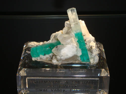 Emerald of Swat Valley